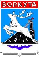 Vorkuta (Komia), coat of arms (1971)